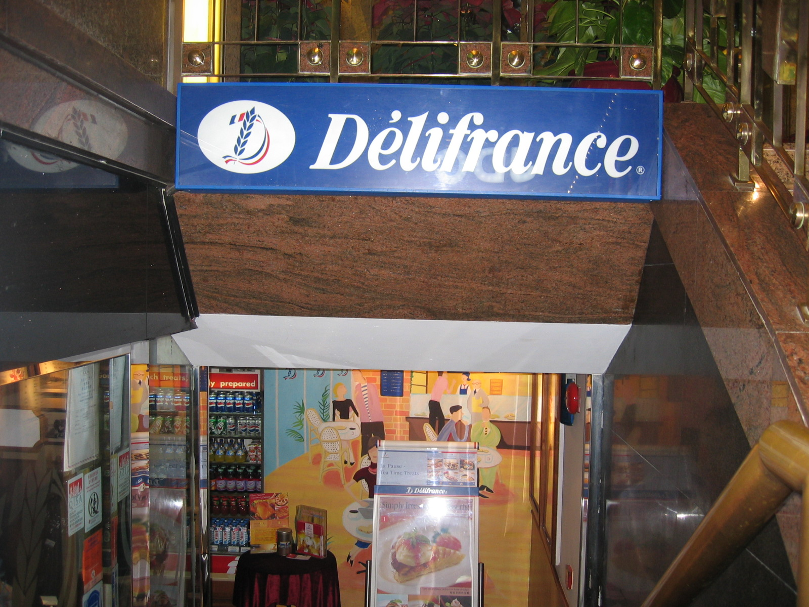 A Delifrance restaurant in Central, Hong Kong.